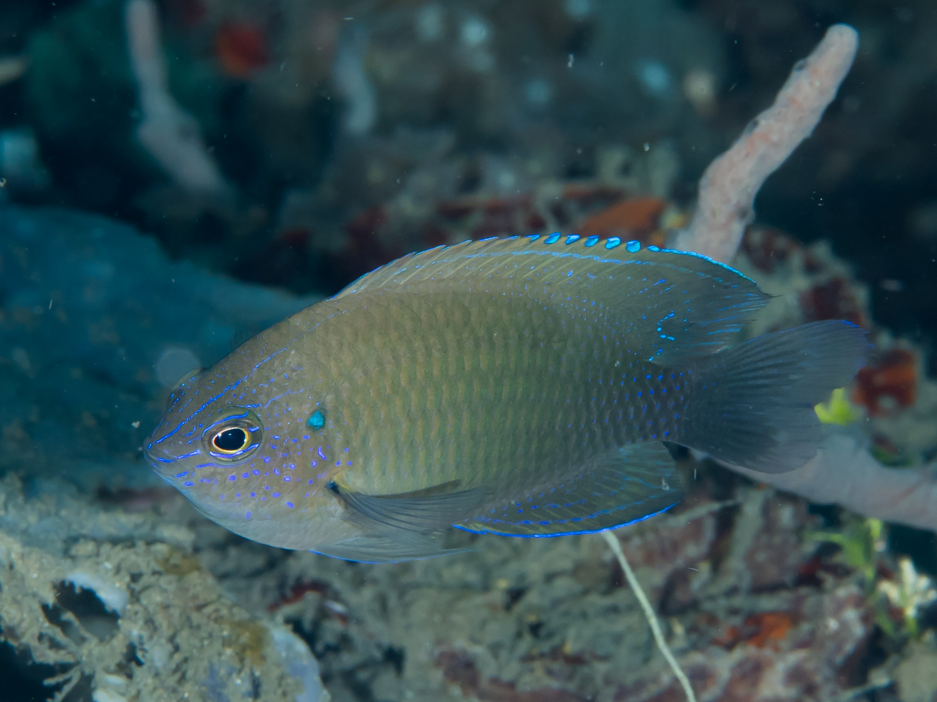 Lembeh, Indonesia - Wedgespot damsel (Pomacentrus cuneatus)